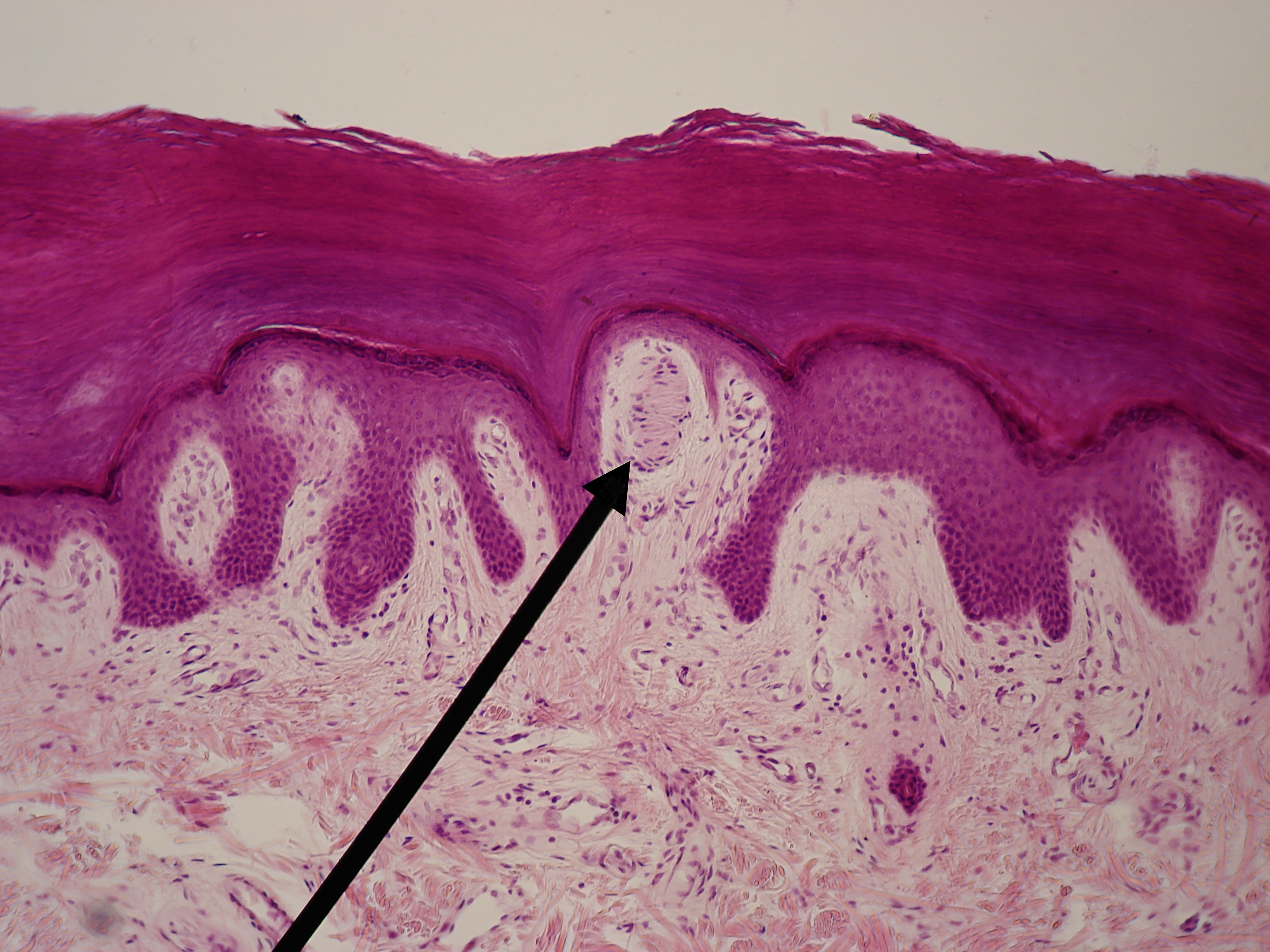 100x light micrograph of Meissner's corpuscle (or tactile corpuscle) at the tip of a dermal papillus. As a type of mechanoreceptor it is responsible for sensitivity to light touch.